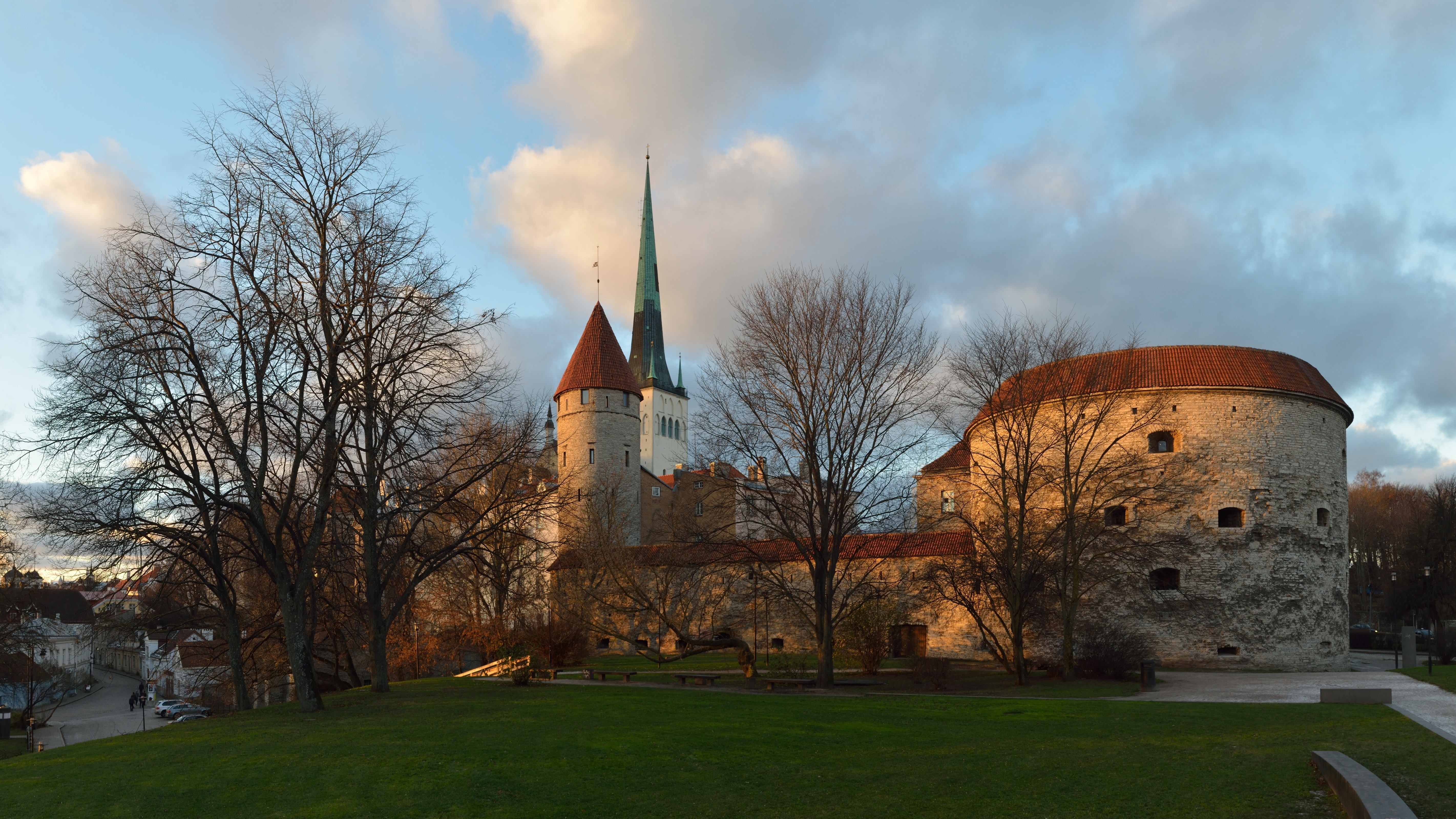 Fat Margaret and Stolting tower — defensive towers in the old town of Tallinn.